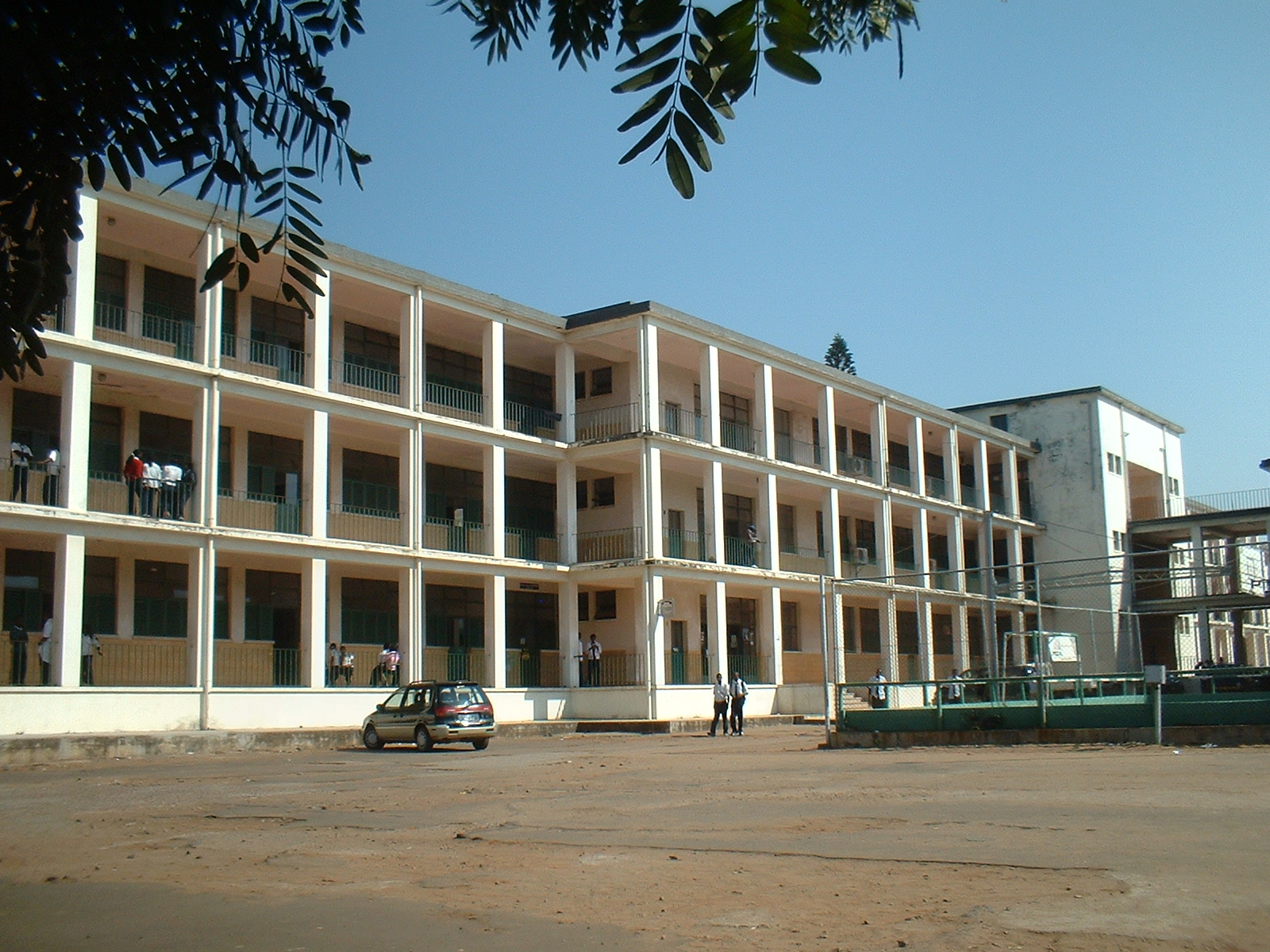 Side view of the Josina Machel Secundary School, Maputo, Mozambique